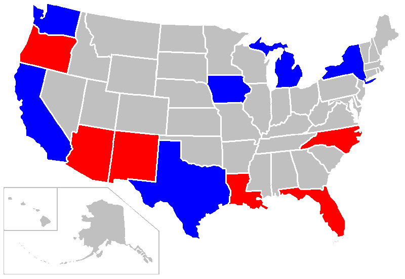 The shaded states on this map indicate participation in the CDC-NIOSH's SENSOR-Pesticide program. States shaded in blue receive federal funding for the program, while states shaded in red are unfunded partners.